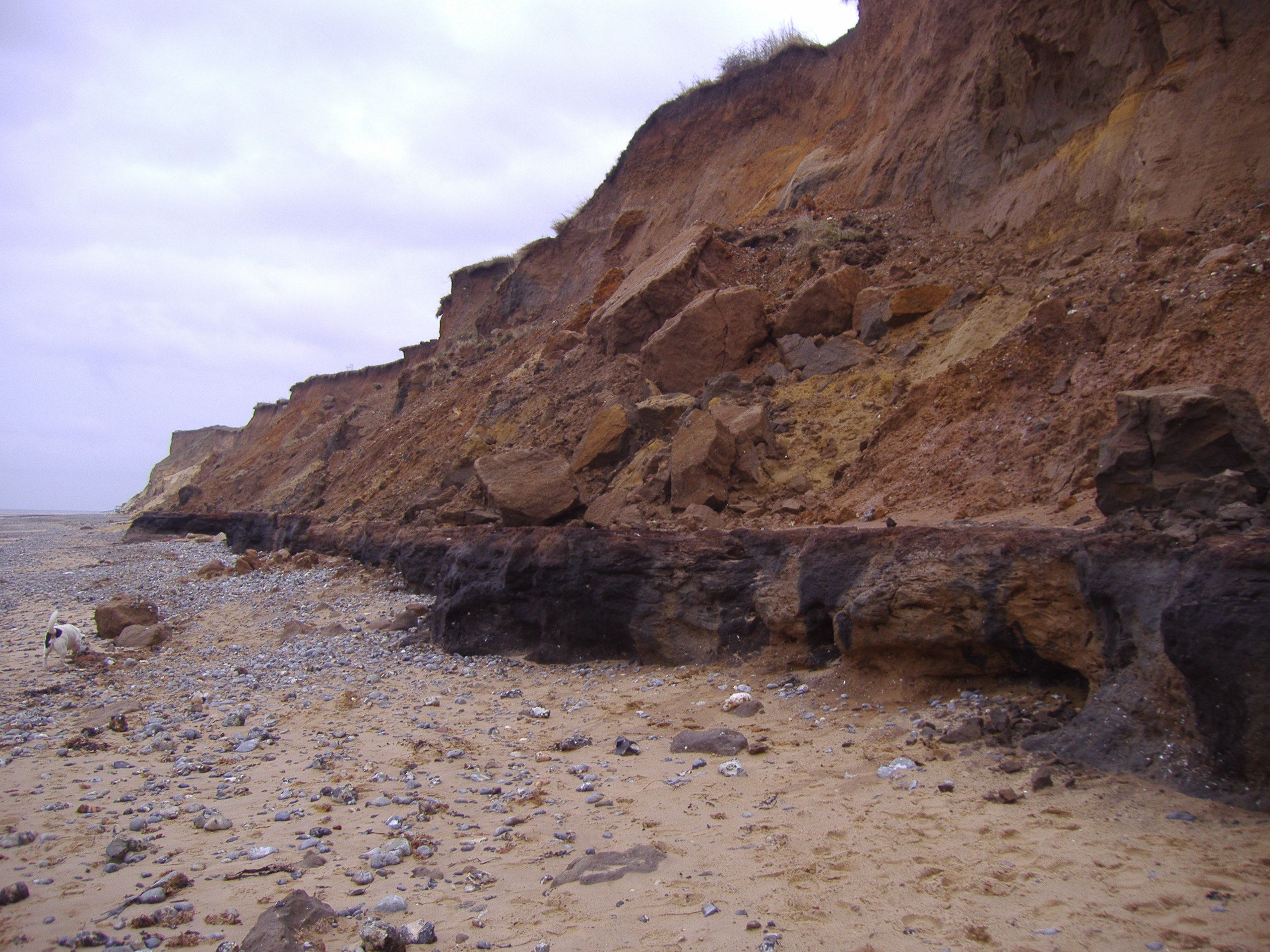 A Digital Photograph of the Cliffs at West Runton Beach taken on the 13th January 2008 by Stavros1 (talk) 15:25, 13 January 2008 (UTC)